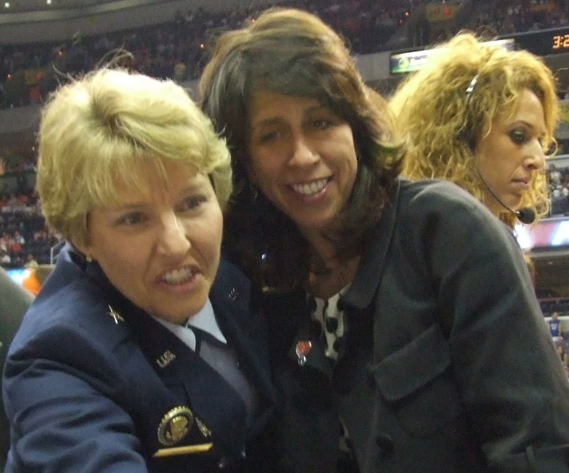 WNBA President Donna Orender (centre), and Air Force Brig. Gen. Michelle D. Johnson, director of U.S. Air Force Public Affairs